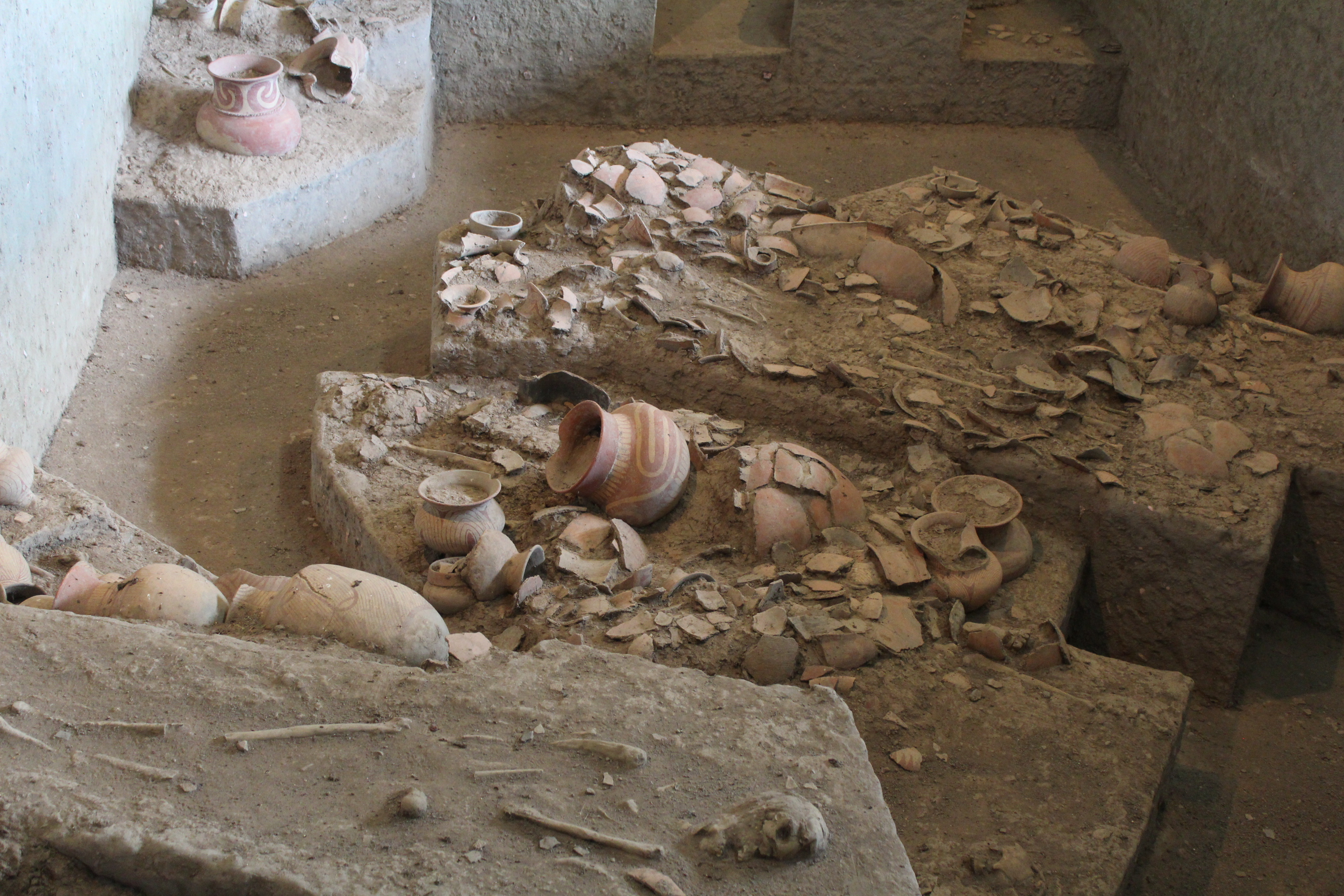 Wat Pho Si Nai is about a kilometer away from the Ban Chiang Museum - it is the only orginal archaeological site in a cluster that has not been built on by the encrouchment of the village, and well worth a visit. The site shows how pots were buried with people during funeral rites.